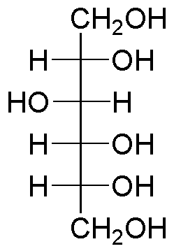 Fischer_projection of sorbitol.